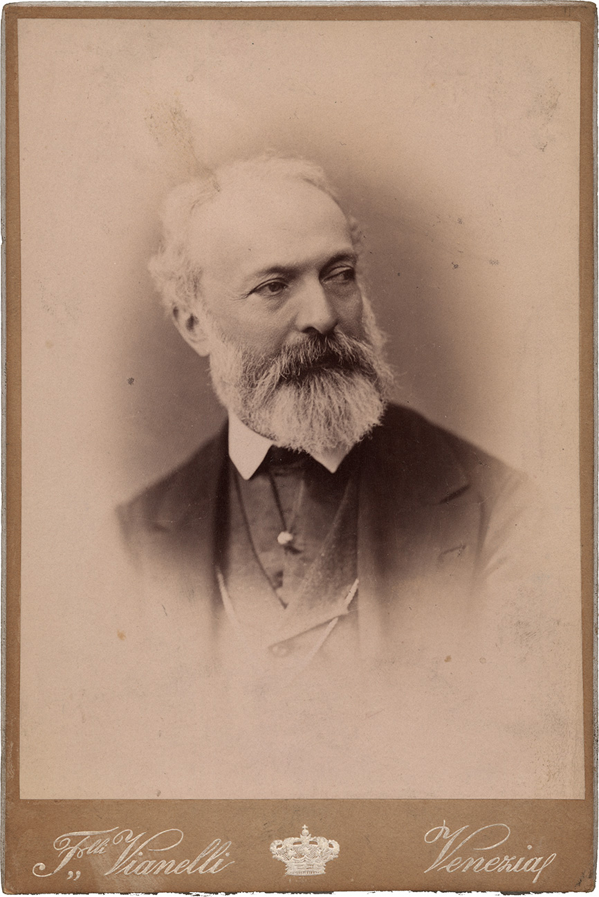 Portrait of Antonio Bazzini, composer (1818-1897). Photo by Fratelli Vianelli, Venezia, before 1897.